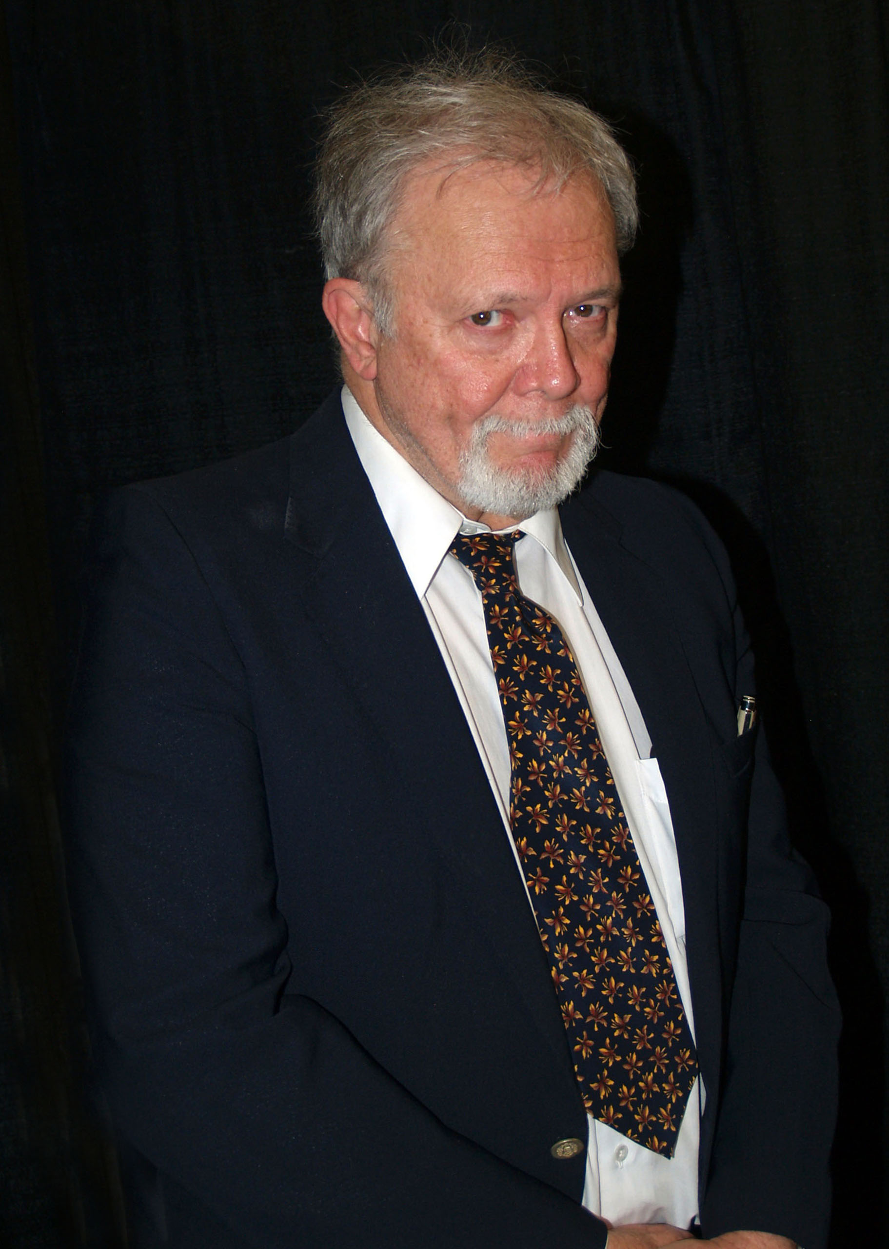 Comics creator Rick Parker at the Meadowlands Exposition Center in Secaucus, New Jersey on April 16, 2016, Day 1 of the 2016 East Coast Comicon. This photo was created by Luigi Novi. It is not in the public domain, and use of this file outside of the licensing terms is a copyright violation.